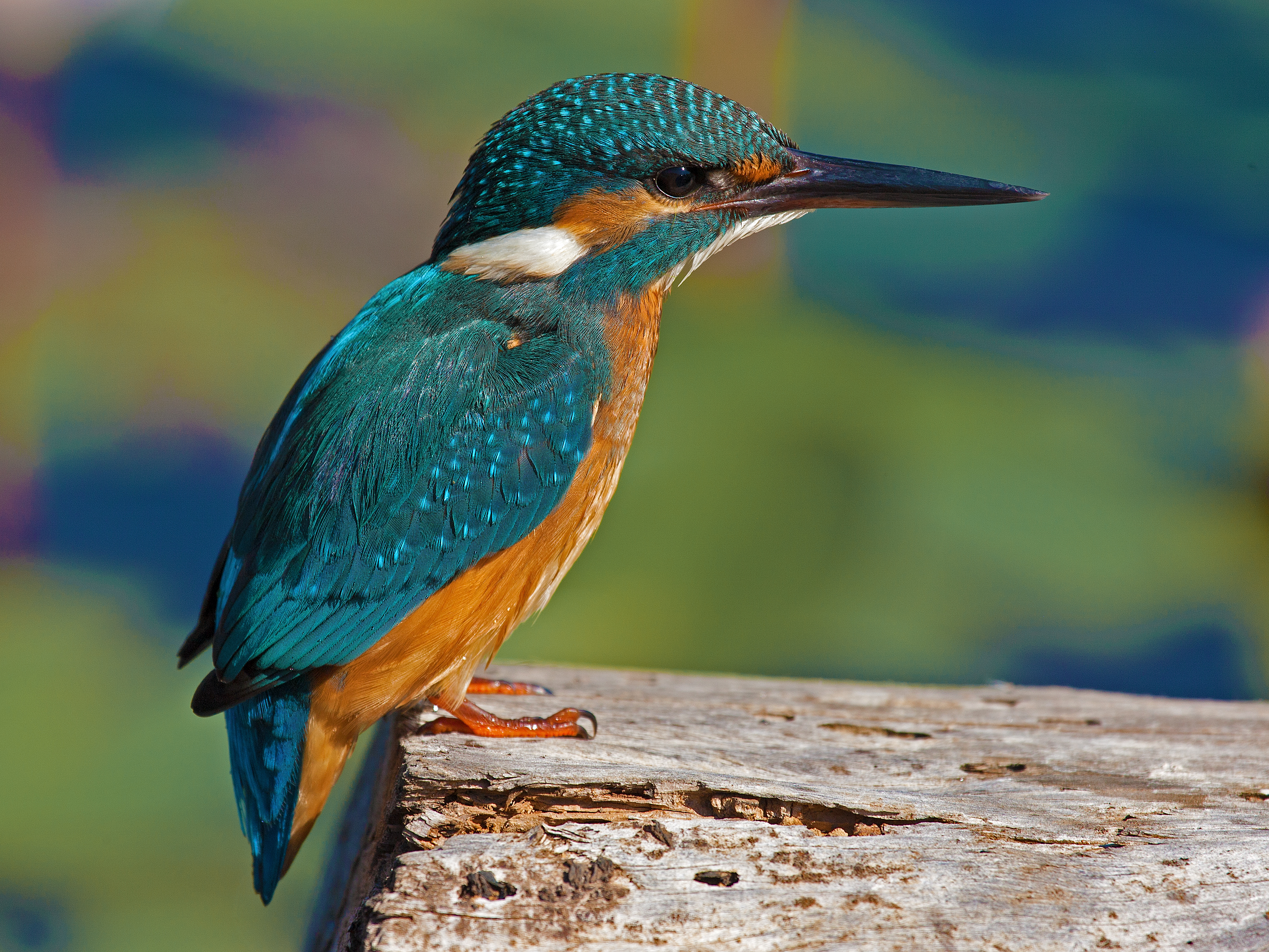 Common Kingfisher Alcedo atthis, Tel Aviv, Israel